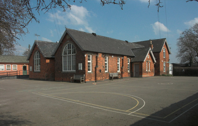 Egginton School The primary school at Egginton also houses the village's Memorial Hall. The village post office nestles behind the main school building.